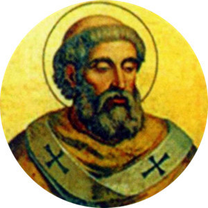 Portait of Pope Gregory III in the Basilica of Saint Paul Outside the Walls, Rome